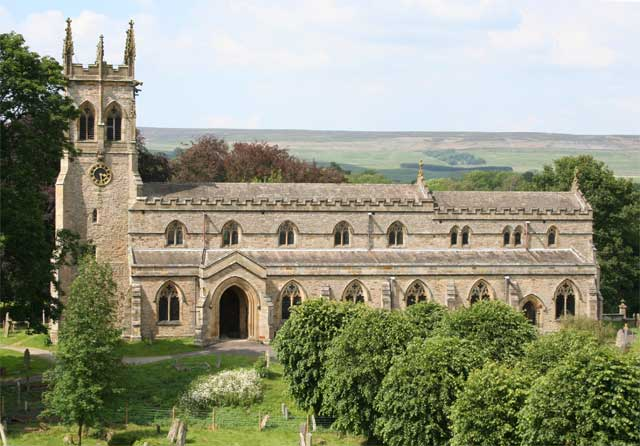 St Andrew's parish church, Aysgarth, North Yorkshire, seen from the south